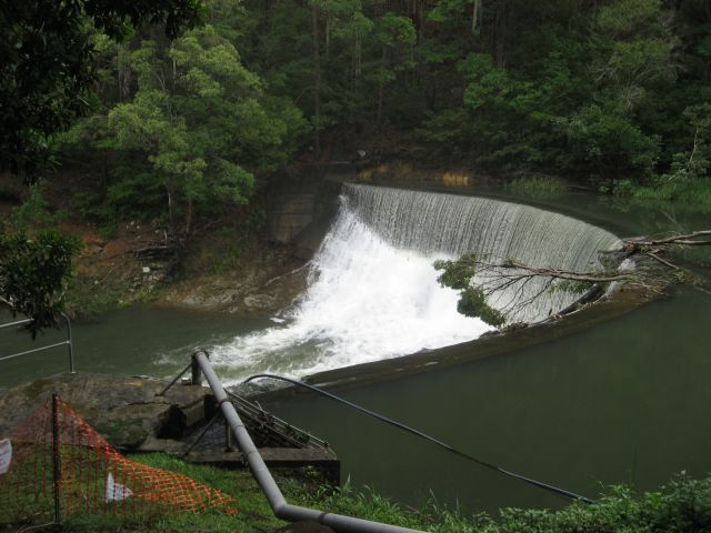 Mullumbimby Hydro-electric Power Station Complex: Lavertys Gap Weir